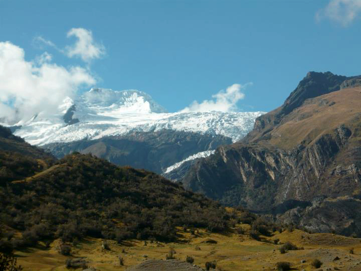 View Quebrada Juitush and Perlilla the north side of where the ascent is made.